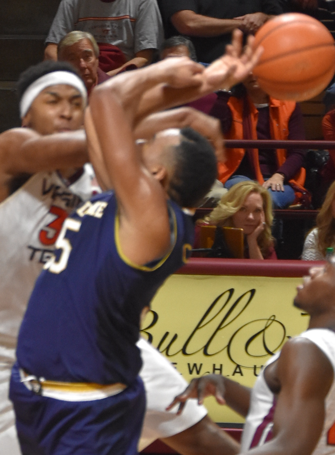 Bonzie Colson goes up against Zach LeDay and get fouled.